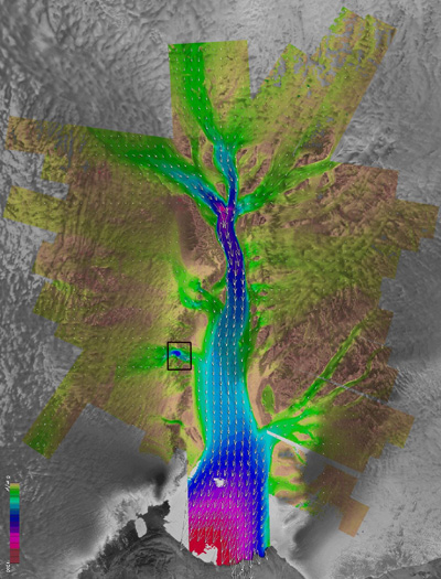 NASA image with location box added